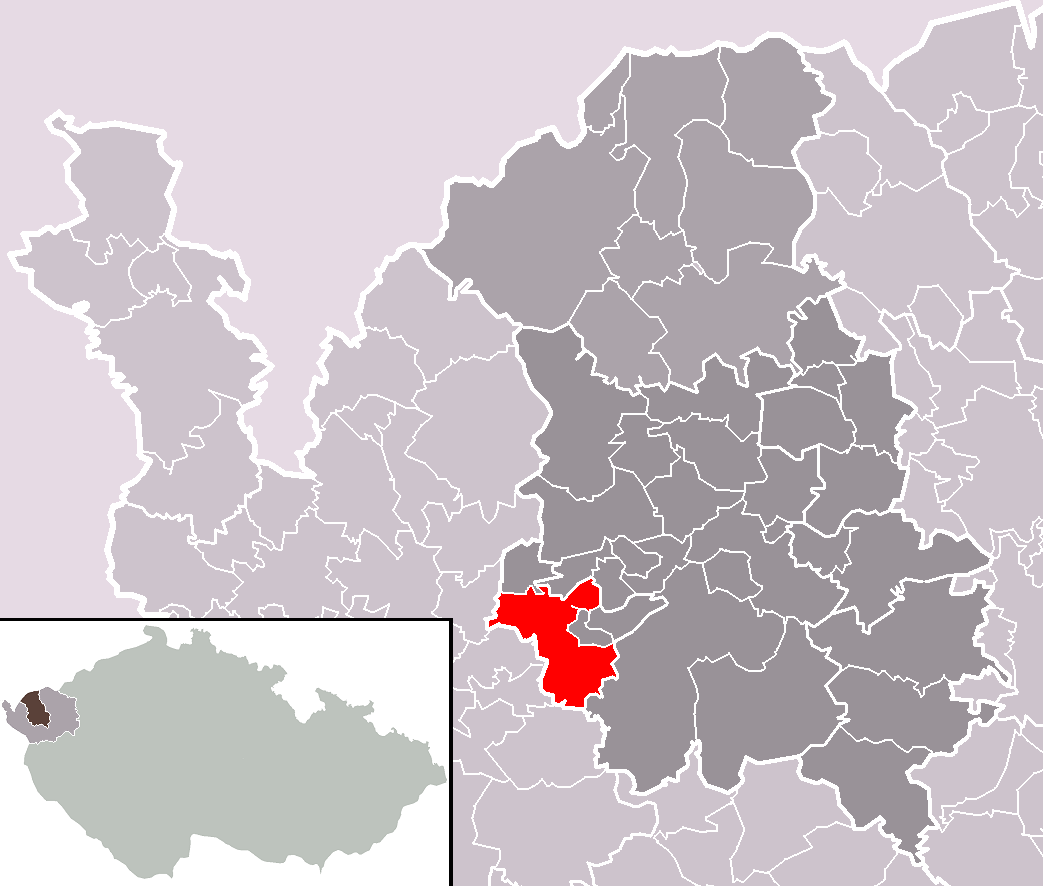 Location of Kynšperk nad Ohří town within Sokolov District and administrative area of Sokolov as a Municipality with Extended Competence.